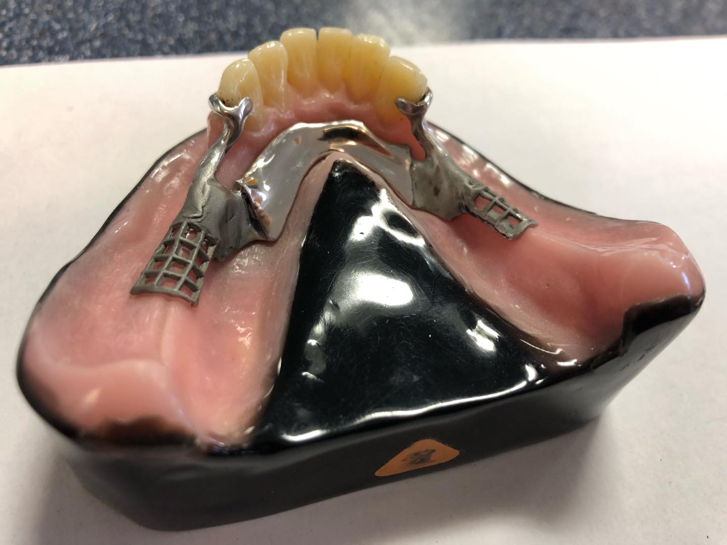 Sublingual bar example (Photo: Model from the Unversity of Dundee Dental School integrated teaching laboratory)